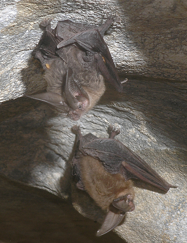 Photo by Dave Bunnell of Townsend's bats in a California cave